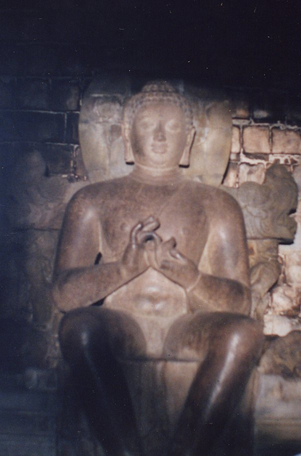 Budha of Candi Mendut